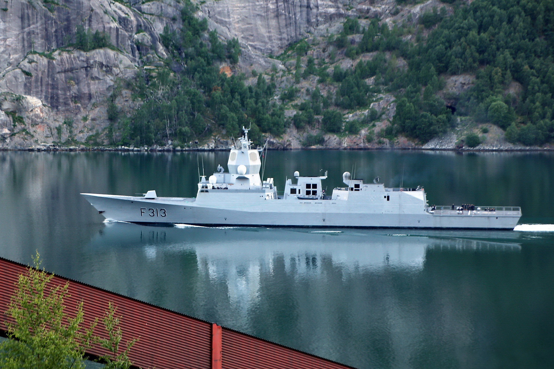 Norwegian frigate "Helge Ingstad" (F313) in the Sørfjord (June 2018). This ship sank in November 2018 in an accident near Bergen (Norway).